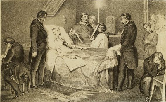 Death of former King Charles Albert of Sardinia (1798-1849) in Oporto.